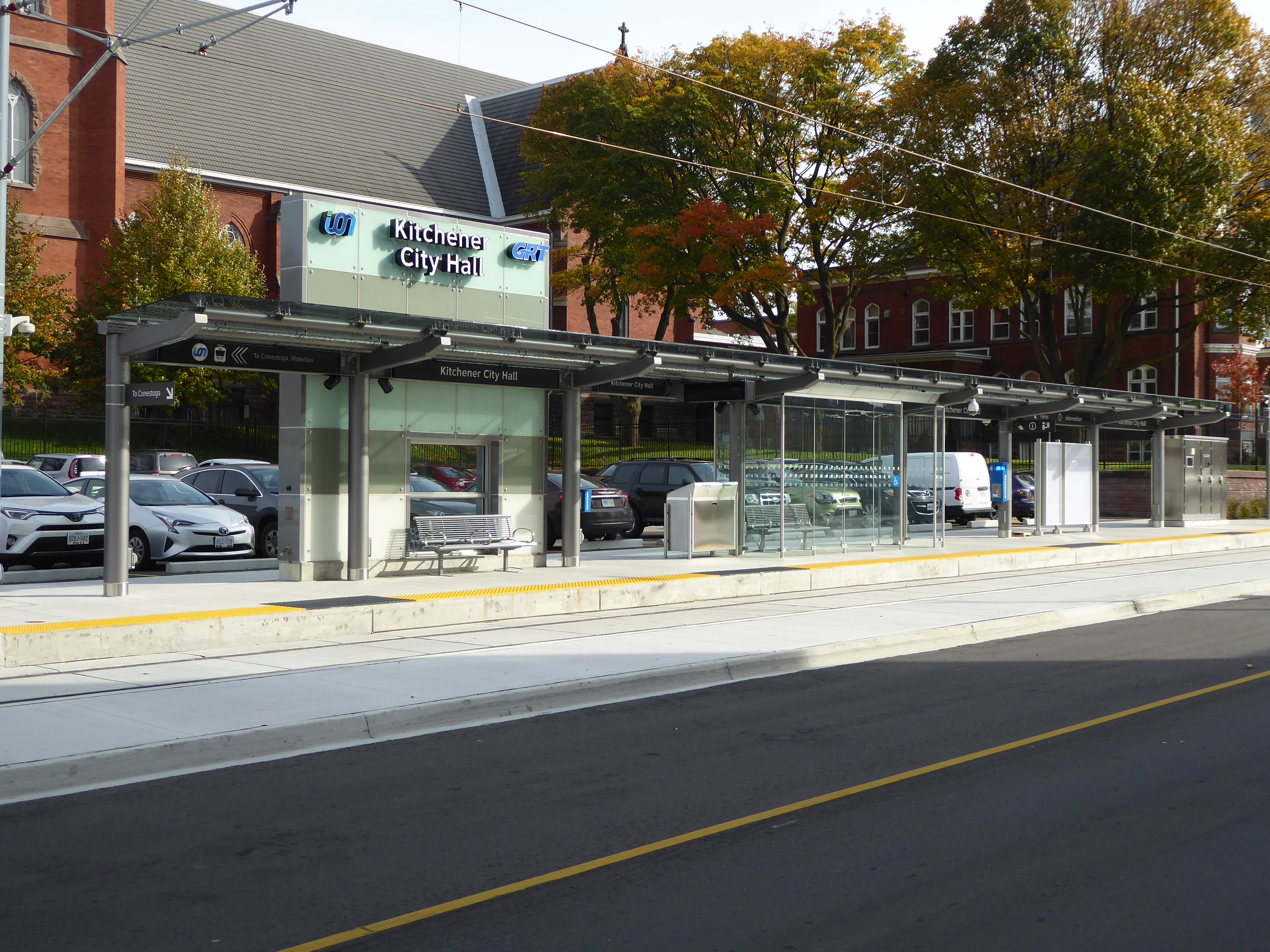 Kitchener City Hall Station of the Ion rapid transit system, photographed structurally complete October 2017